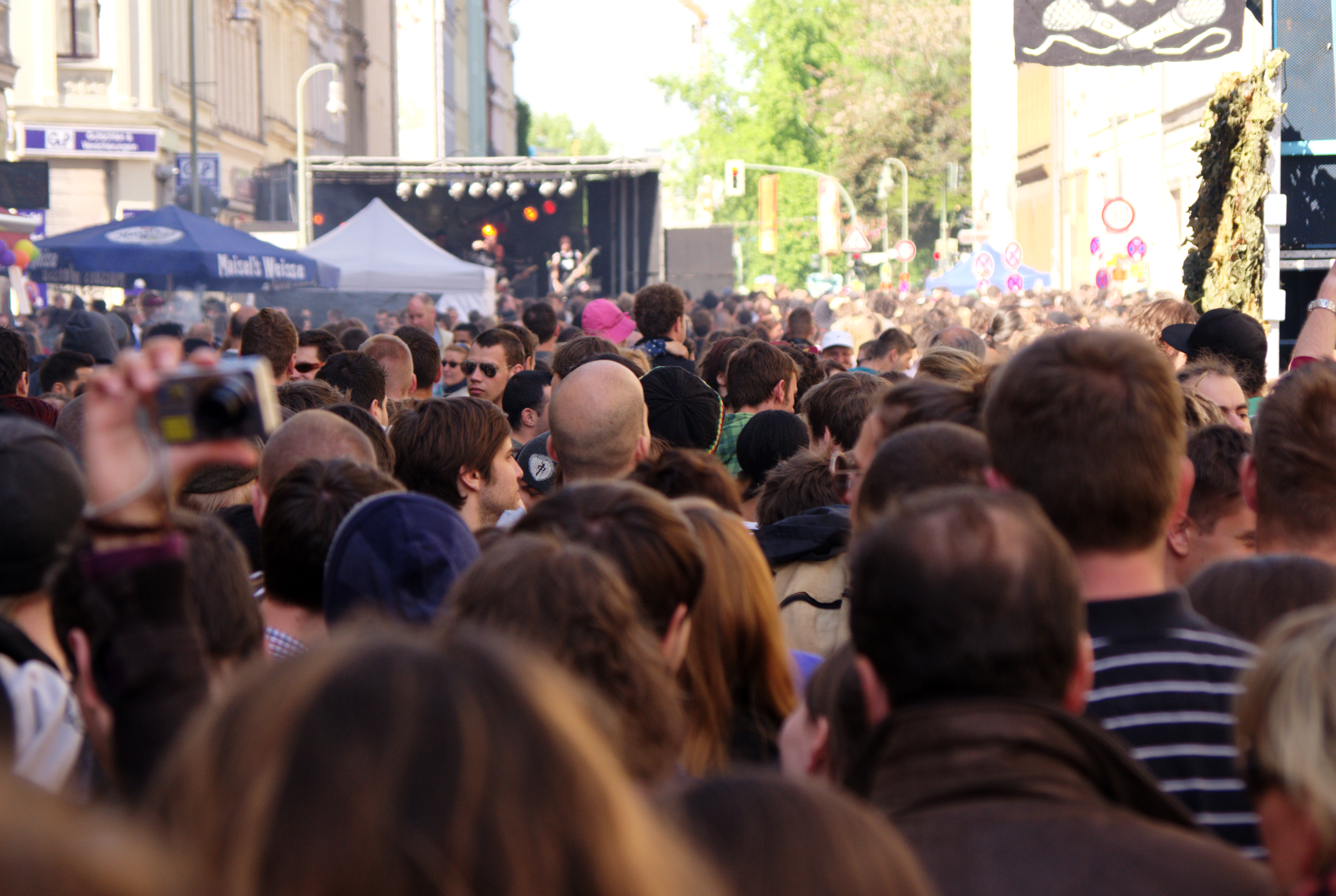 Vitistors of the Myfest 2011 in Berlin-Kreuzberg